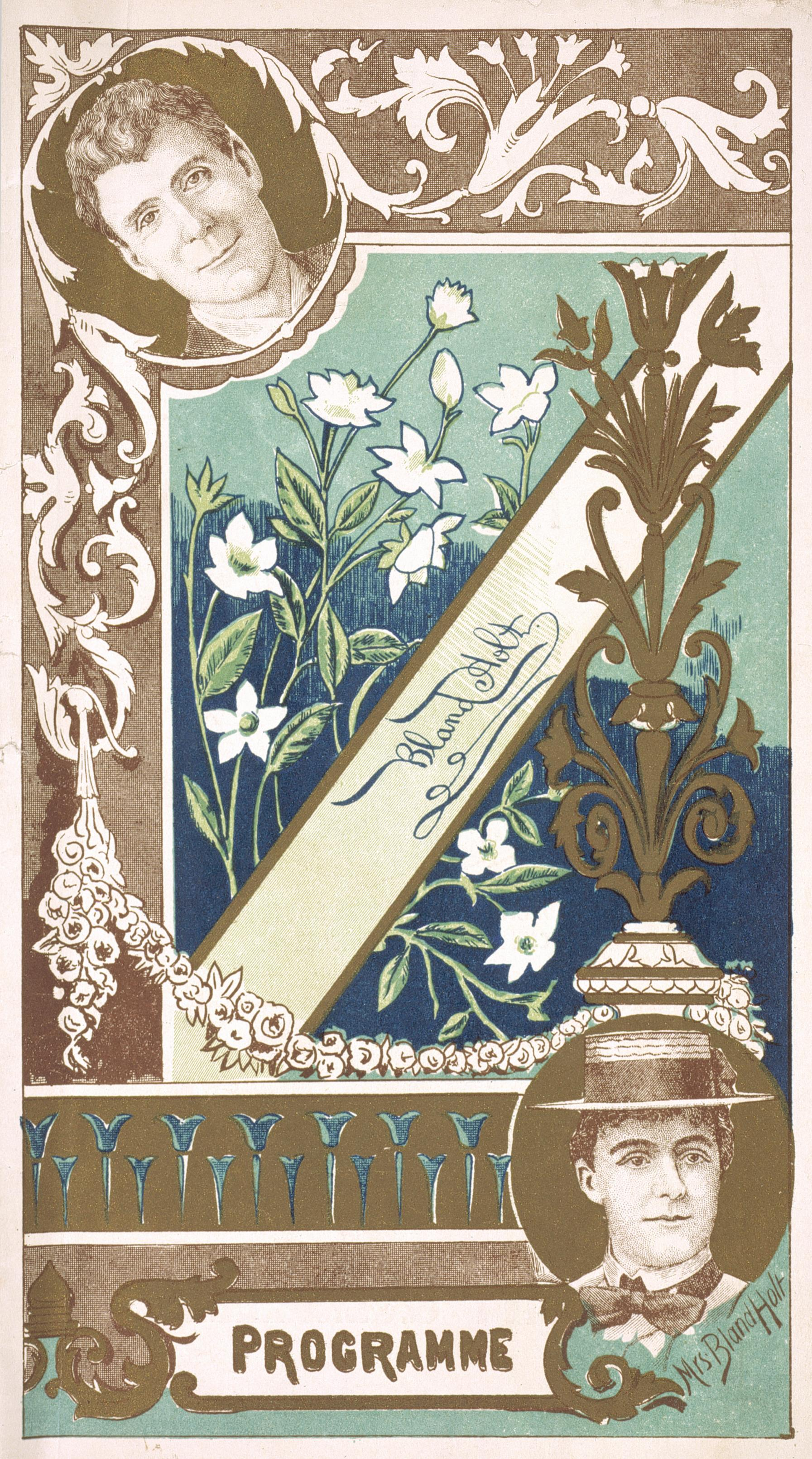 Contains programme of play cast list and some photographs of cast members. Quantity: 1 Album(s) containing programmes and advertisements.. Physical Description: Letterpress, 20 pages, 247 x 140 mm. This evening's programme: Bland Holt and his combination of dramatic favourites in "The war of wealth" written by Messrs Sutton Vane and C T Dazey. [ca 1899].. [Programmes and fliers relating to plays and dramatic performances in New Zealand. 1899].. Ref: Eph-B-DRAMA-1899-01. Alexander Turnbull Library, Wellington, New Zealand.